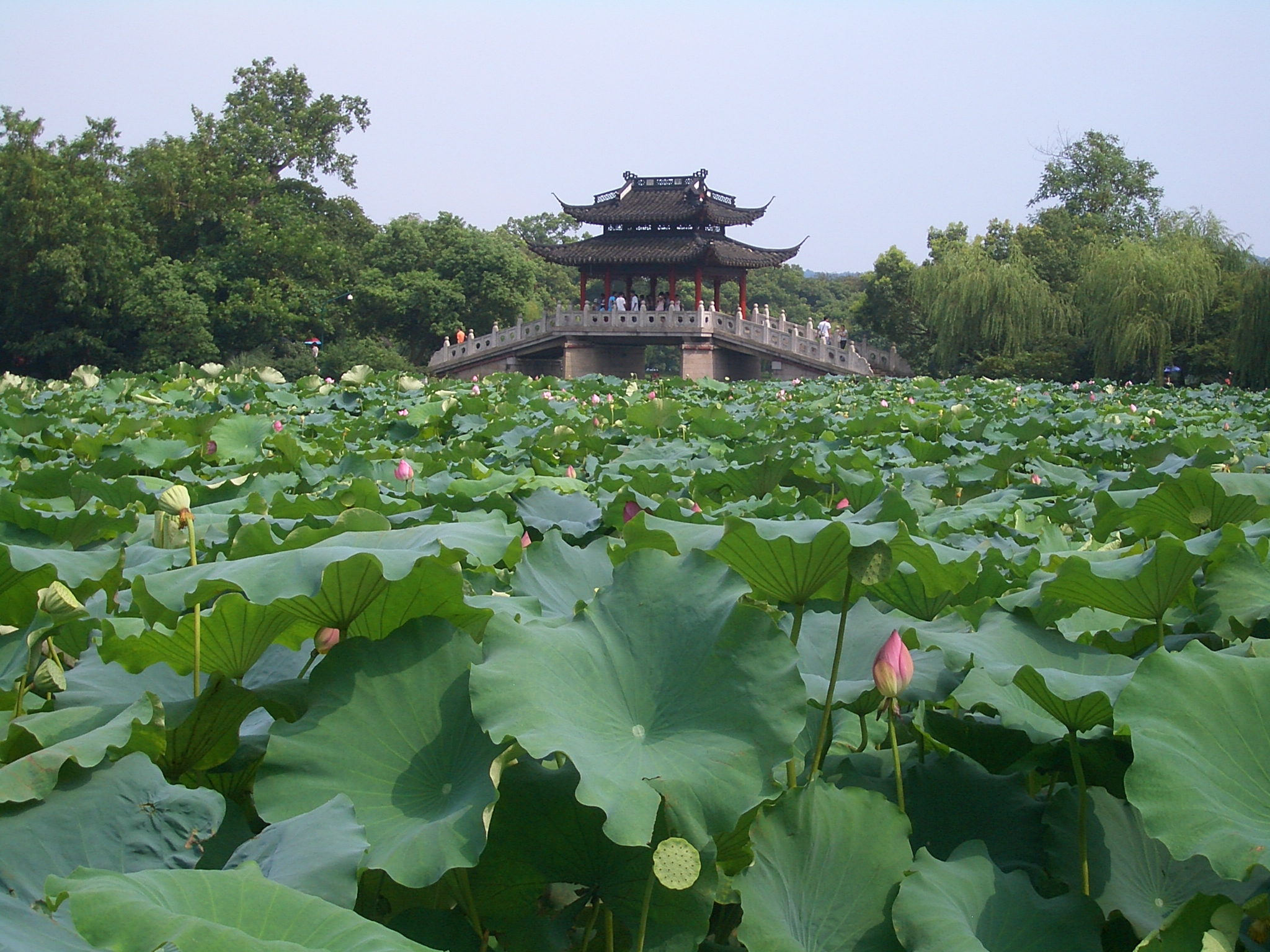 Hangzhou, West Lake